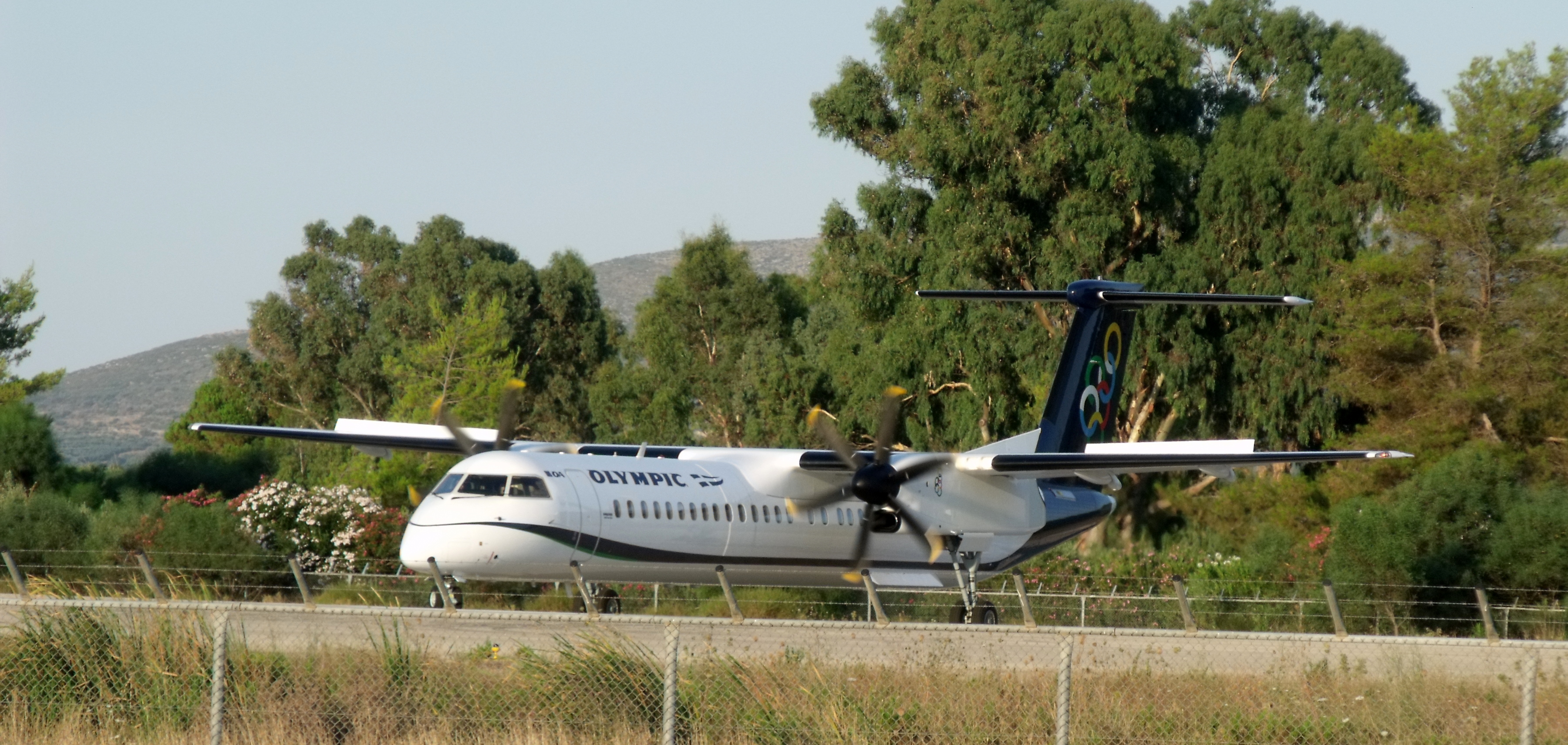 Olympic DHC-8Q-402 SX-OBF taken from the threshold at Zante Airport